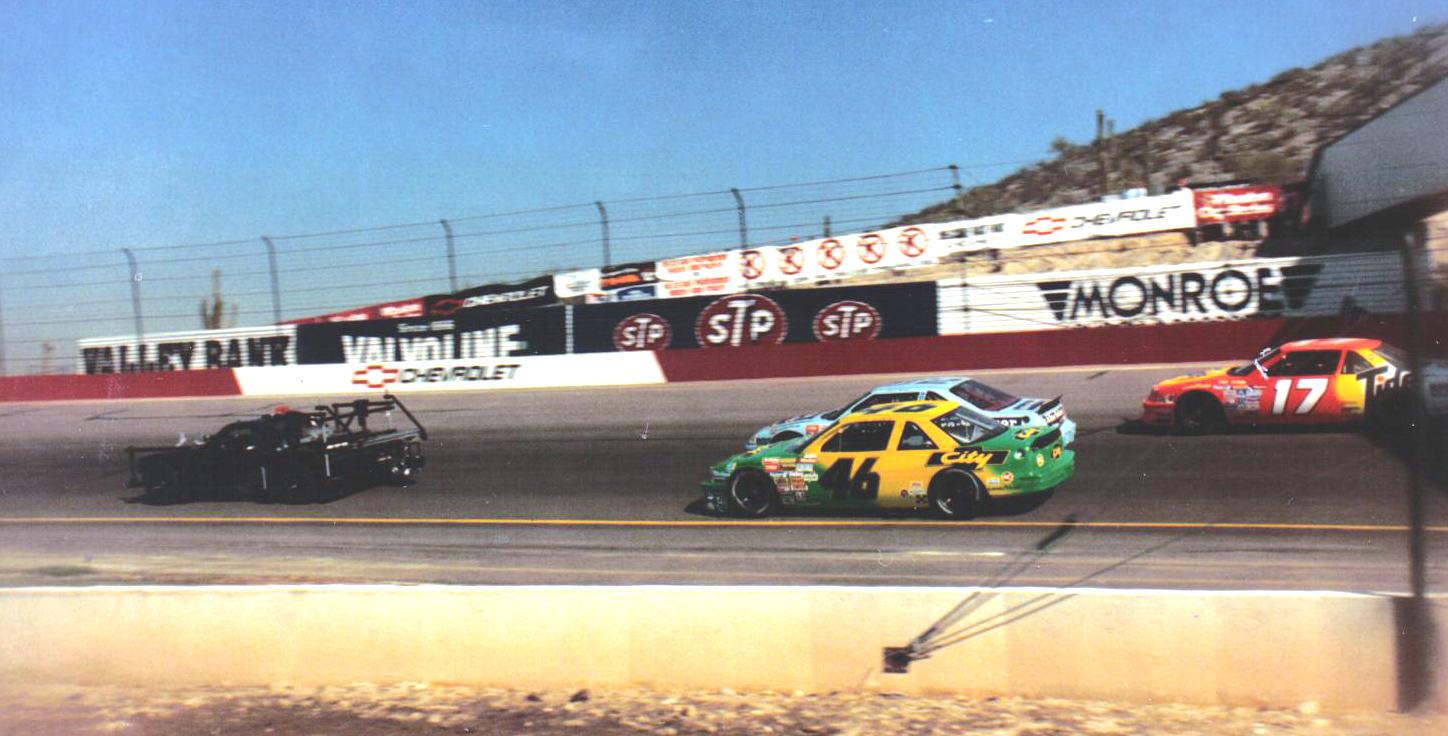 Camera vehicle leads the 46 car shooting footage for the movie "Days of Thunder"